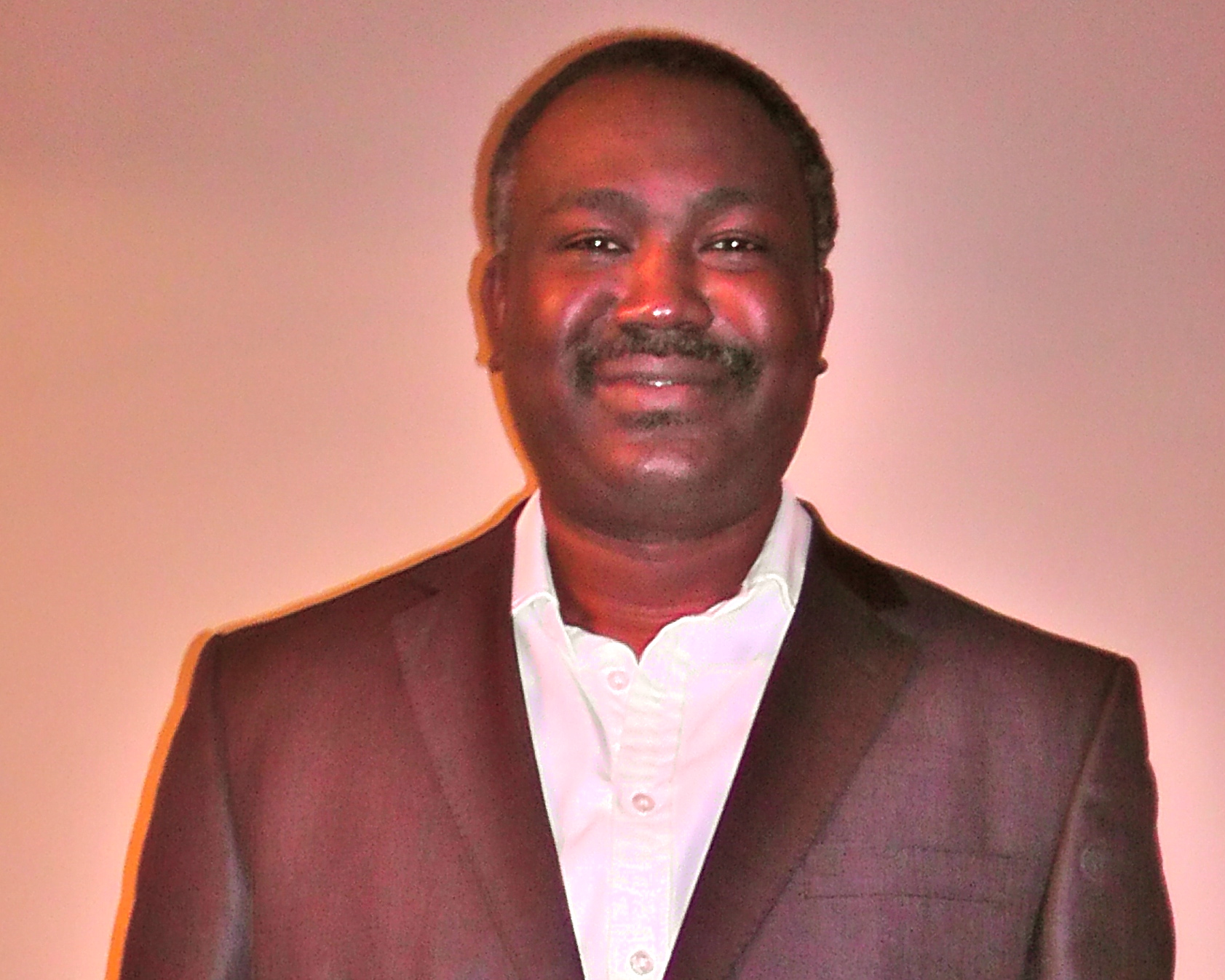 Author: Kamaldin Orire Source: Kamaldin Orire